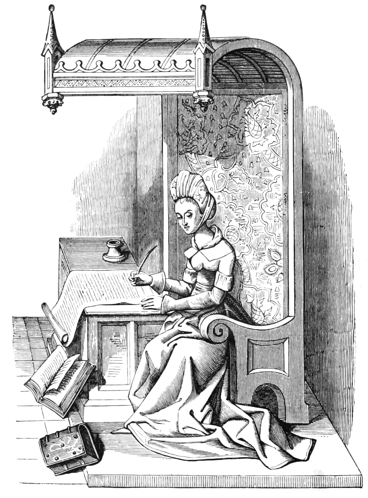 Christine de Pisan (or Pizan) writing, engraved after a 15th-century manuscript